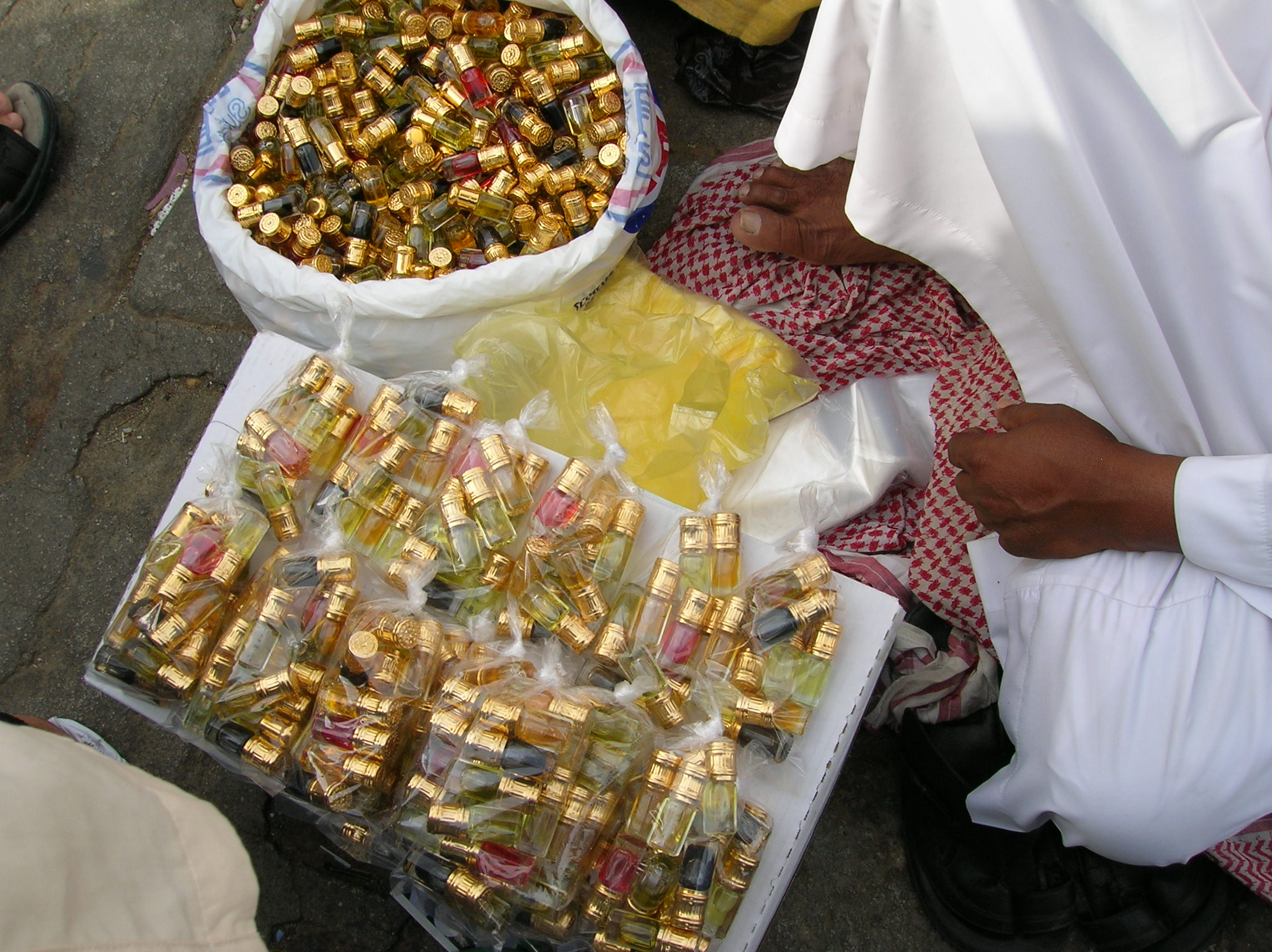 Attar sold at the apex of Jabal ar-Rahmah, Makkah.